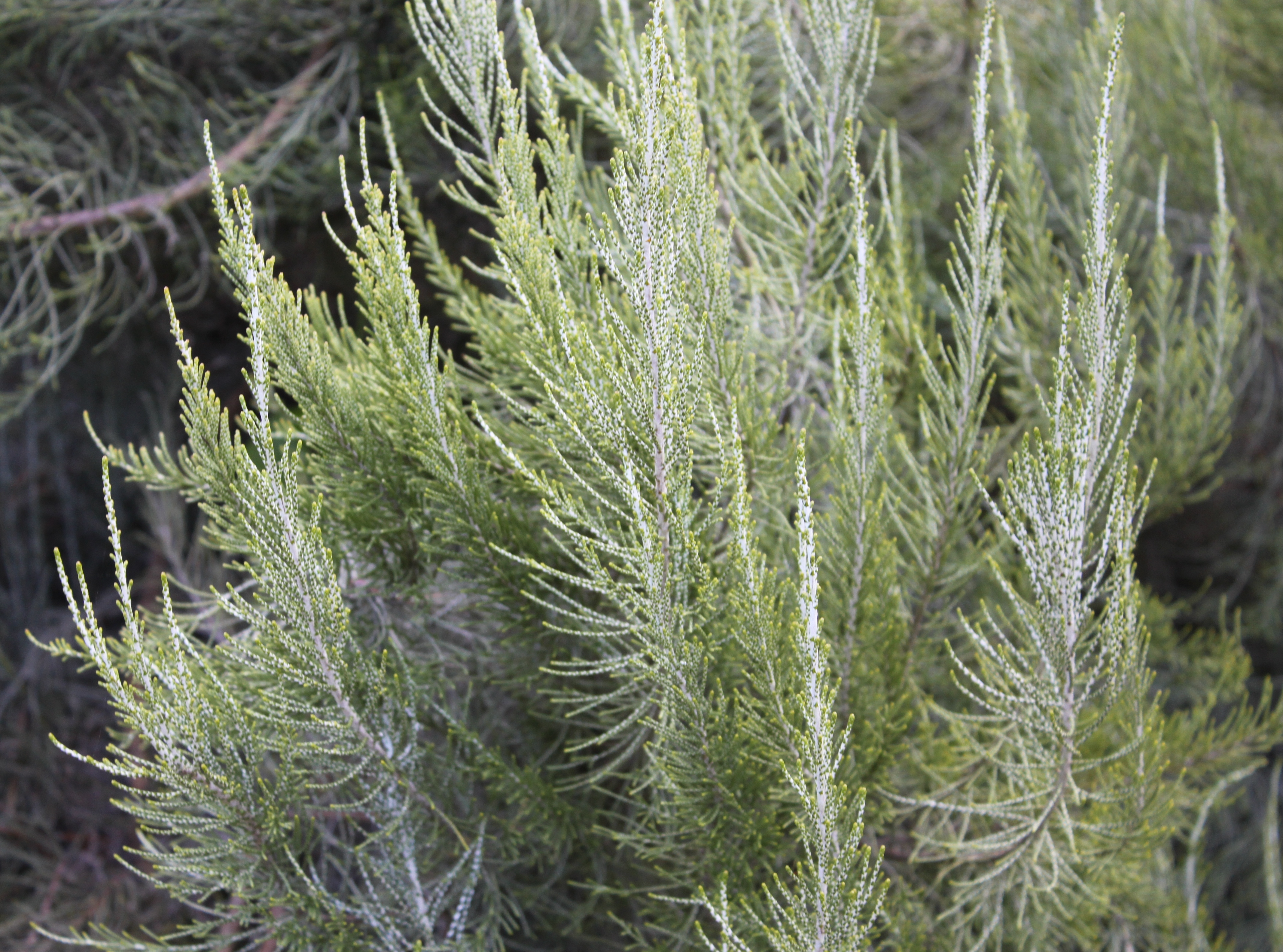 Renosterbos, or Elytropappus rhinocerotis. A key species in, and namesake of, the Renosterveld vegetation type, in South Africa.